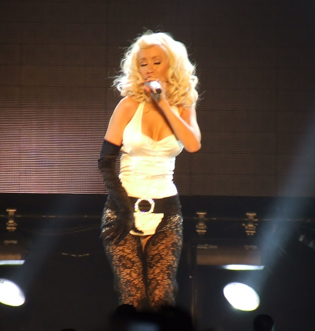 Christina Aguilera sings "Slow Down Baby"